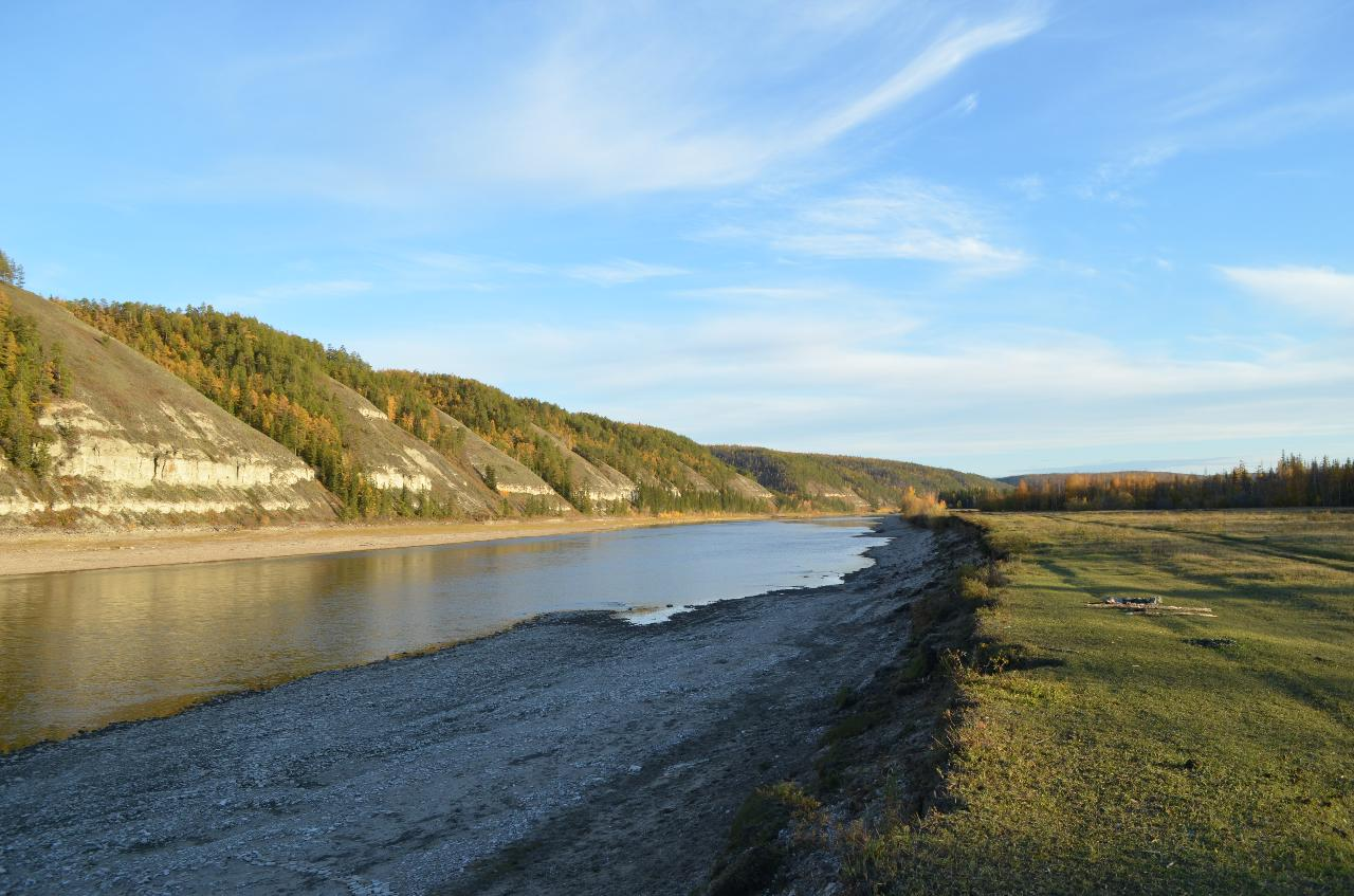 This photos are made during cruise Yakutsk — Lеnskiye Shchyoki, Lena Cheeks — Yakutsk (with arrival in Mirny), 05.09−17.09.2016